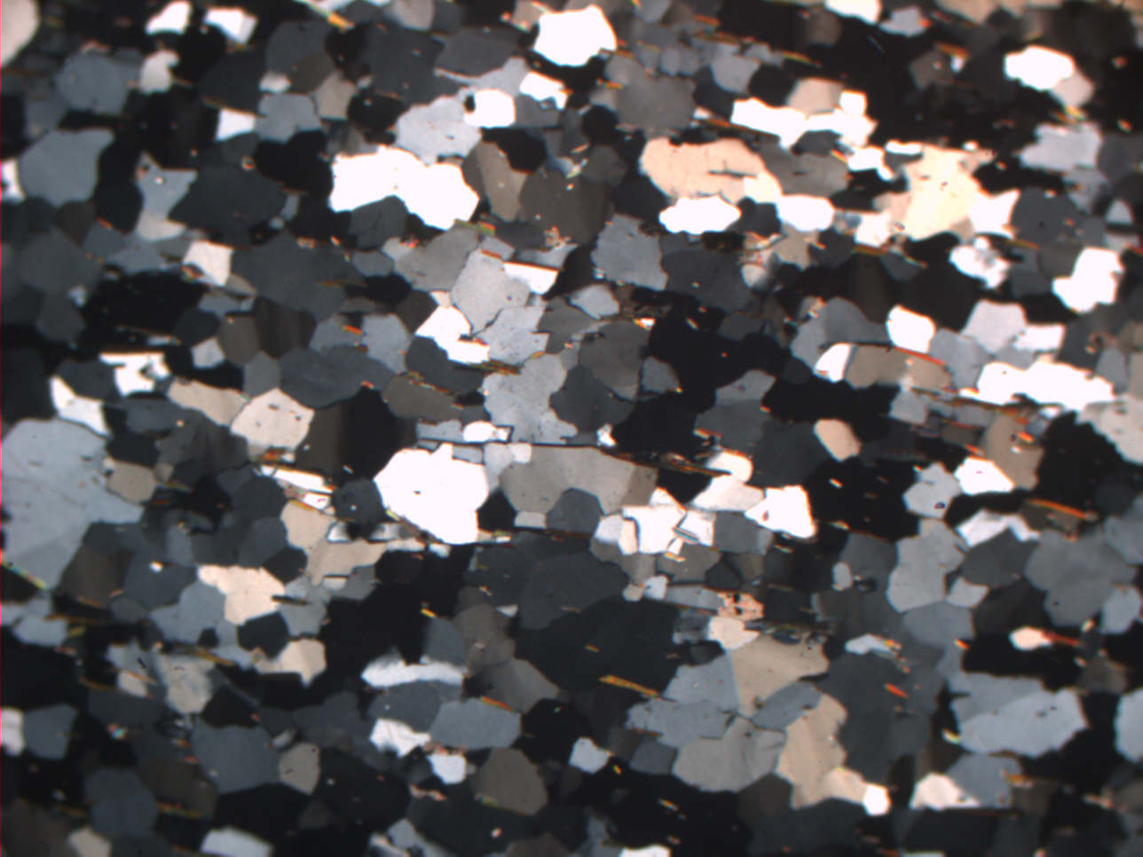 A thin section image of the Bo Quartzite of Salangen, South Troms, Norway illustrating the mineralogy of the quartzite. The minerals present include quartz (the black, white and grey crystals), tourmaline, muscovite mica and elongate garnet (the elongate high refractive index crystals)